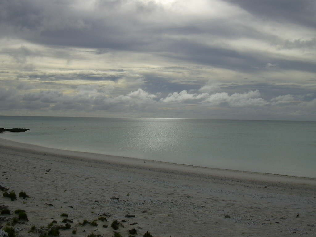 Beach and Lagoon, Sibylla Island, Taongi Atoll, RMI